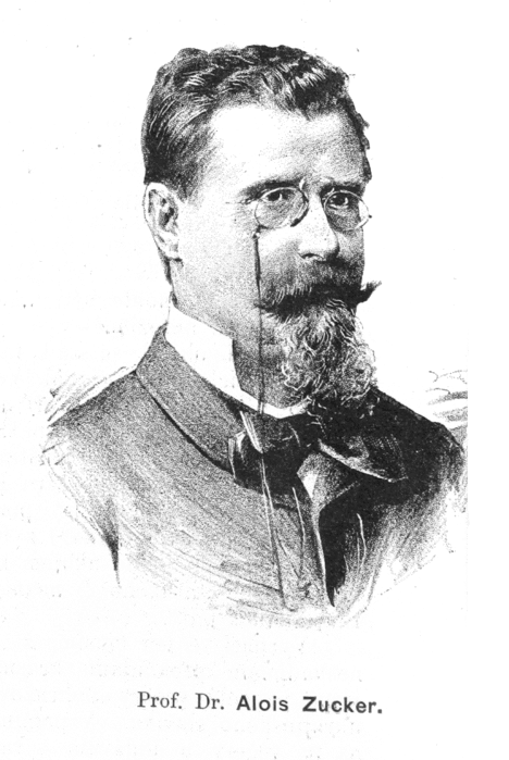 Portrait of Alois Zucker (1842-1906), Czech lawyer and politician.